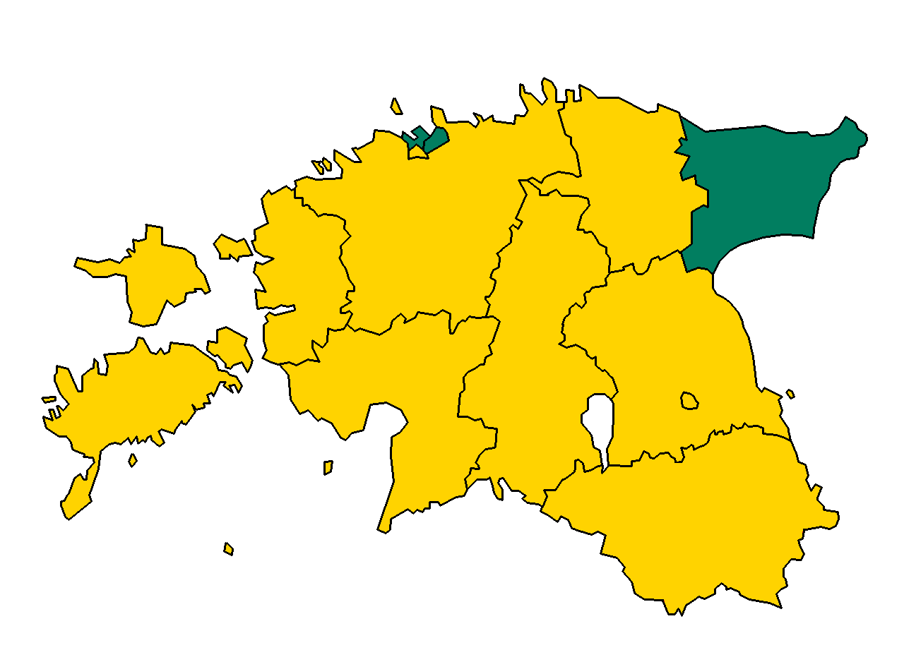 Shows winning party by electoral district in the 2015 Estonian general election. Yellow=Reform Green=Centre